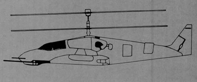 Hokum sketch based on data available to the Western sources